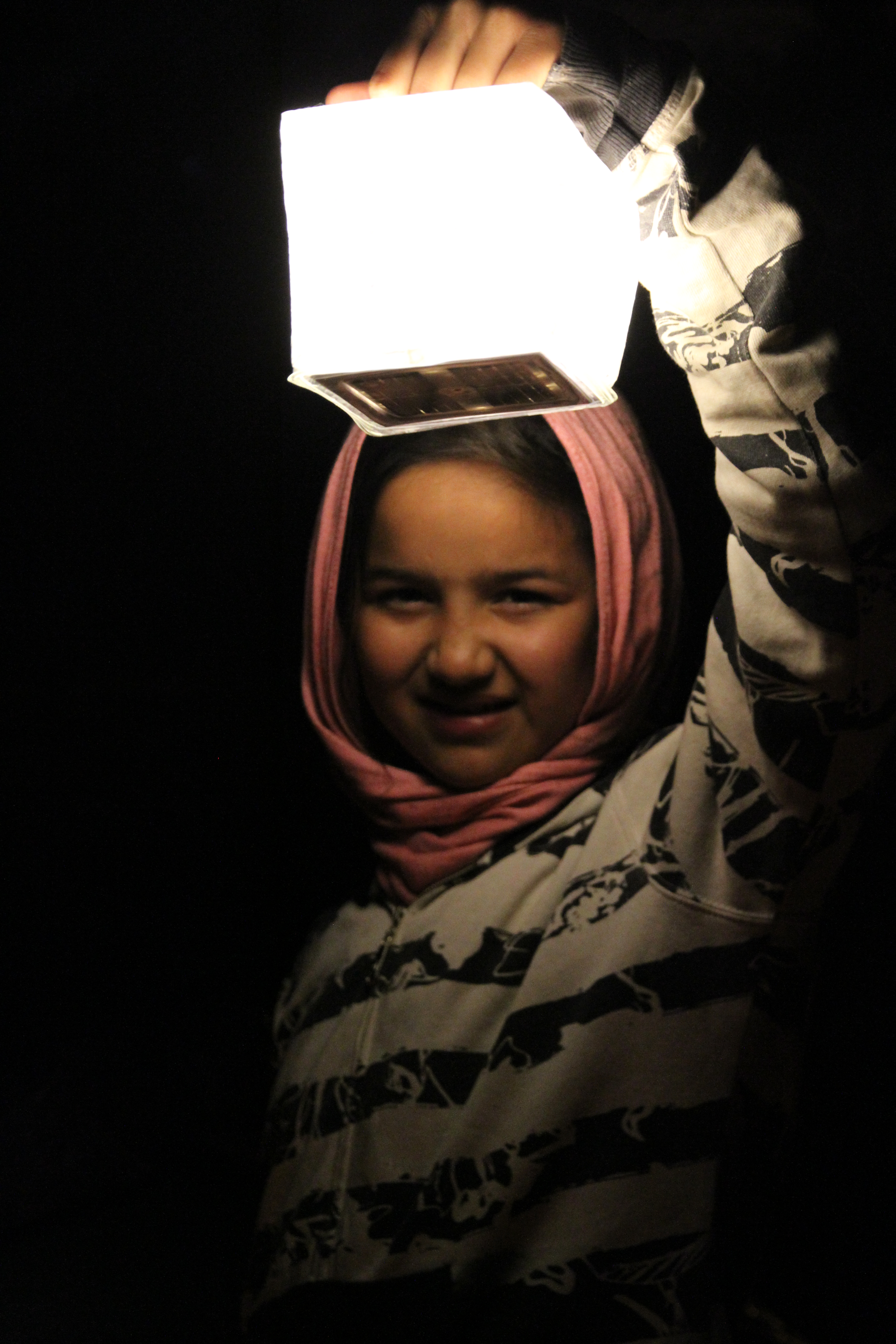 Solar Puff lantern.